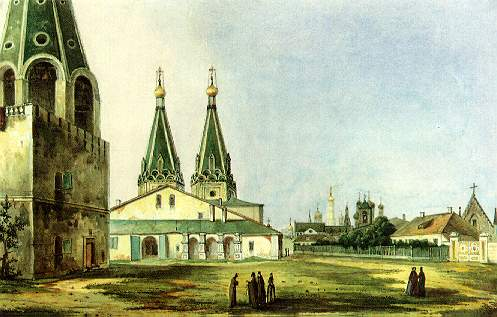 ArtistK.I. RabusTitleView on Alekseevsky monasteryDate1838Current locationRussiaSource/Photographer (Reusing this file)Public domain